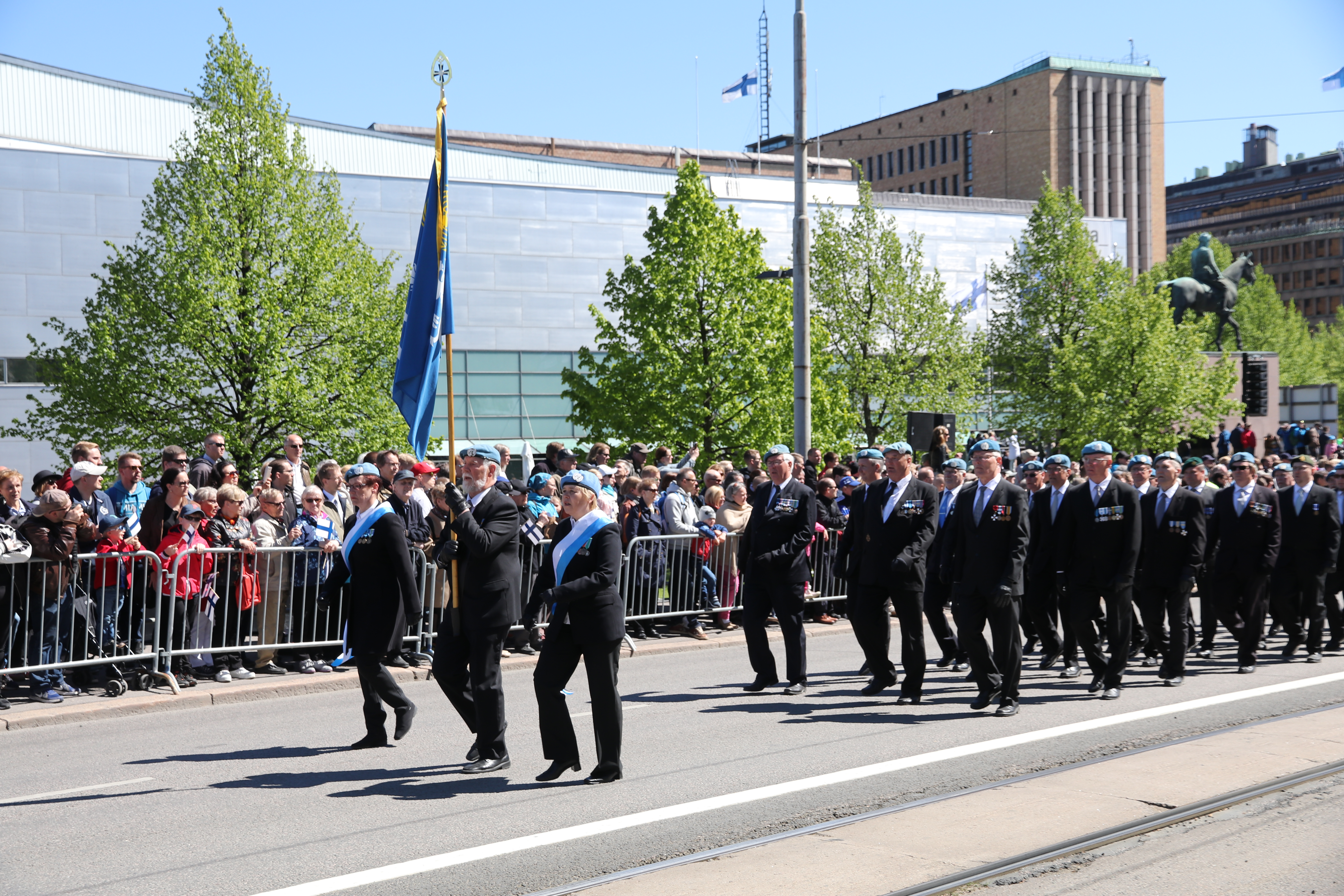 Finnish defence forces flag day 2017 parade: Finnish peace keepers association.